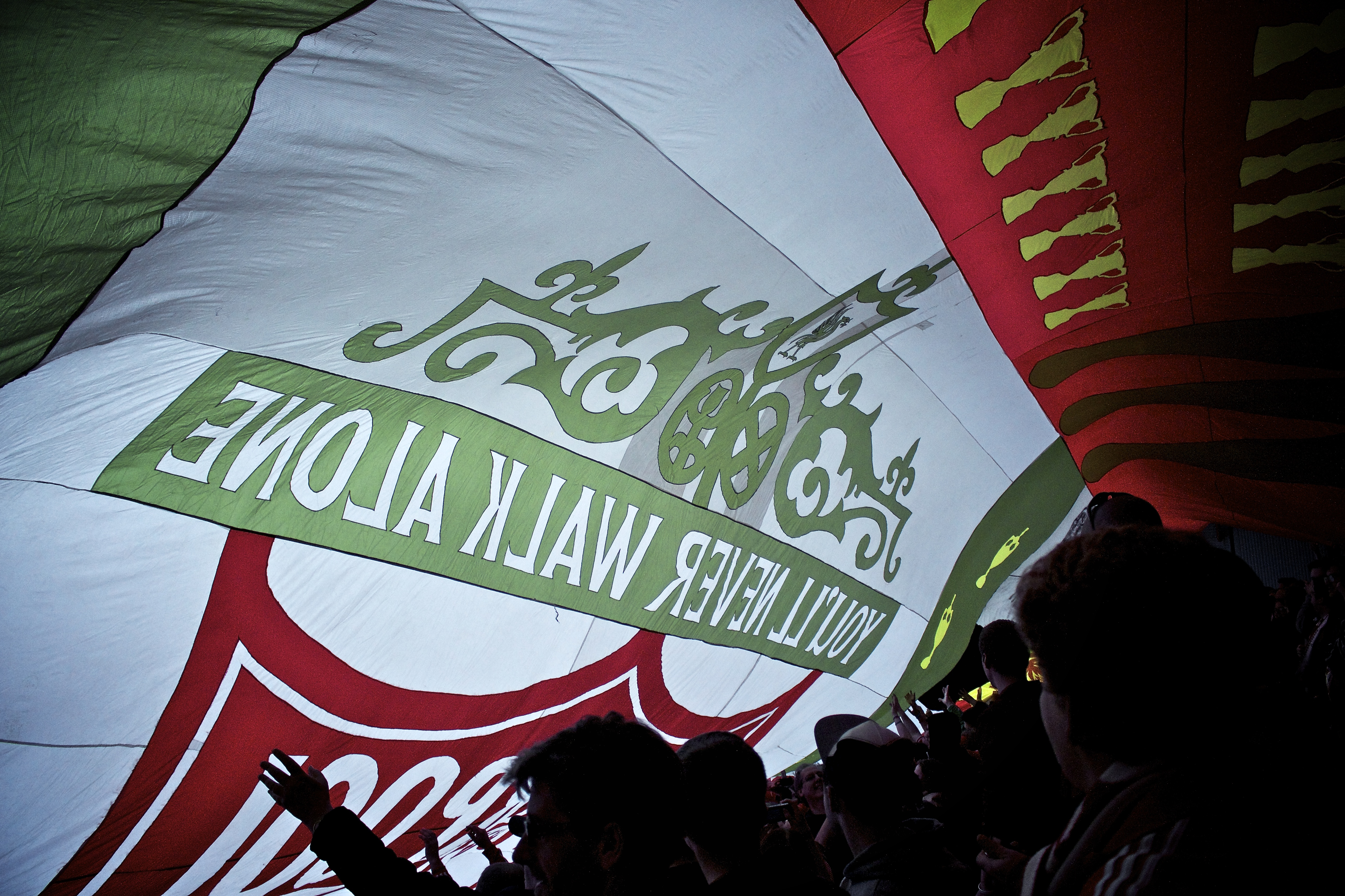 Celebration of the 96 was a charity game held to commemorate the 25th Anniversary of the Hillsborough disaster. This photo was taken under a one of the many famous large flags that float across the Kop on match day.